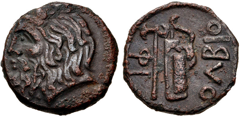 SKYTHIA, Olbia coin Circa 310-280 BCE